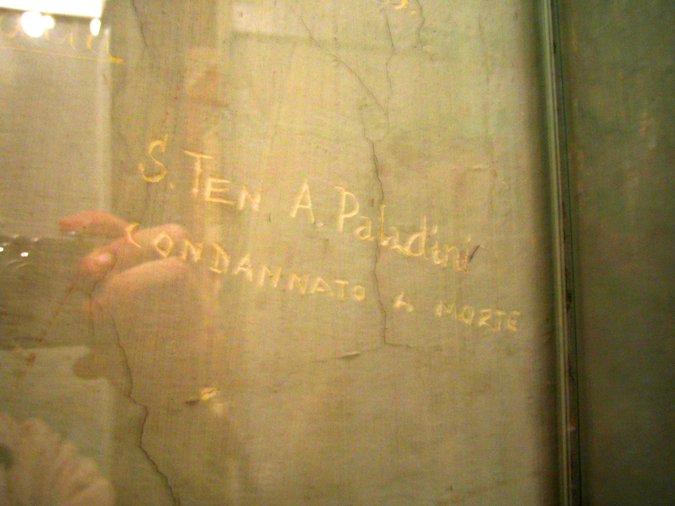 "Sublieutenant A. Paladini, condemned to death." In his own hand, scratched into the wall of his cell, a small room that once held about twelve people (the central door in the adjacent photo). Arrigo Paladini did not, in fact, die here. Through sheer good luck the truck he was loaded onto on 4 June 1944, the day of Rome's liberation, didn't start, and he was sent back into his cell. Another truckload of prisoners, whose truck did start, wasn't so lucky. They were all shot at La Storta, in the north of Rome, as the Allies were pouring into the city from the south.